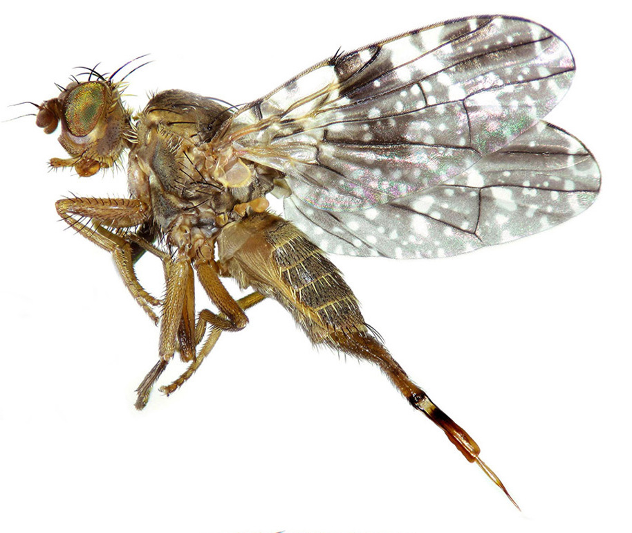 Tephritis arnicae habitus